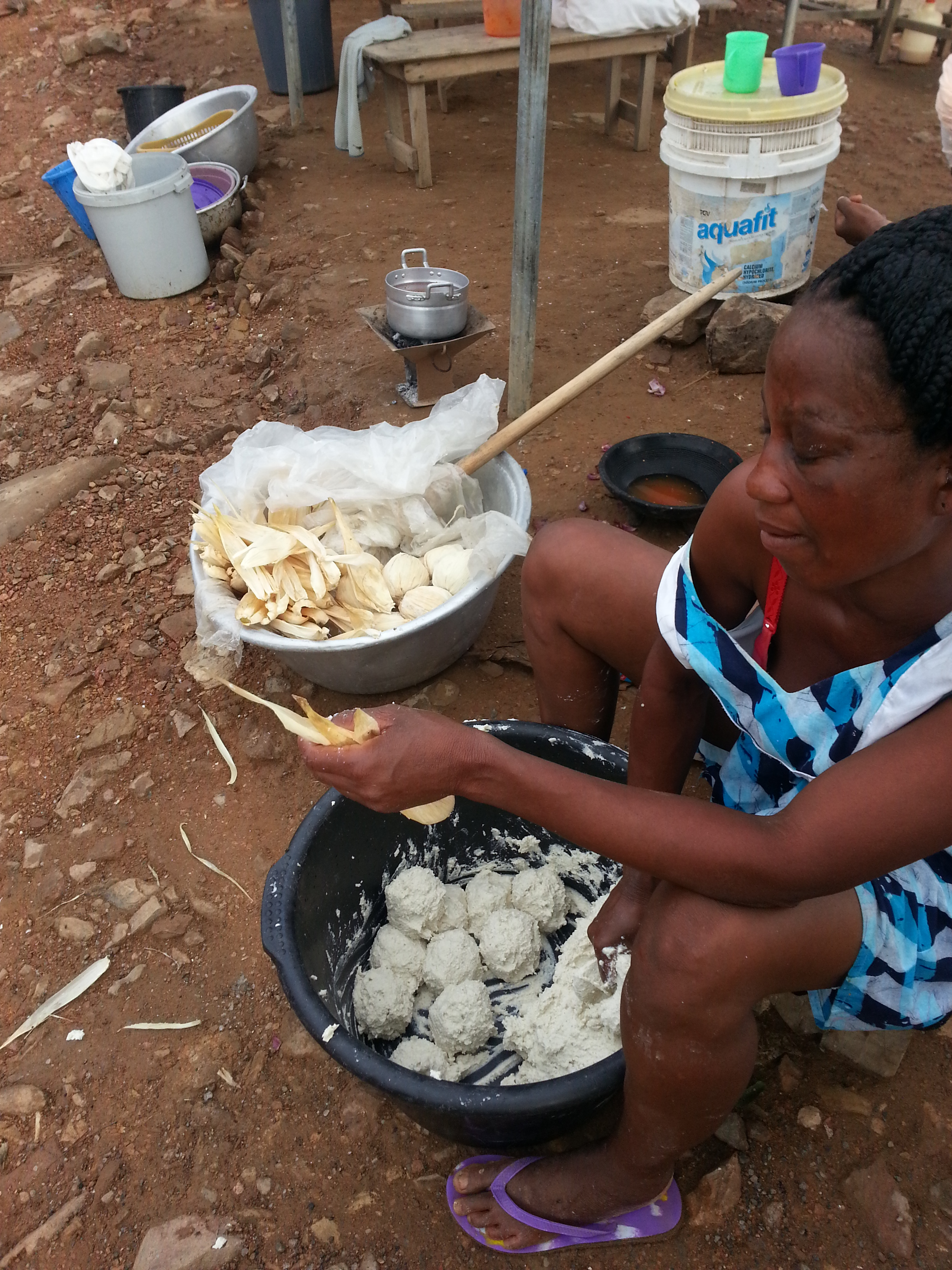 A woman preparing Ga kenkey